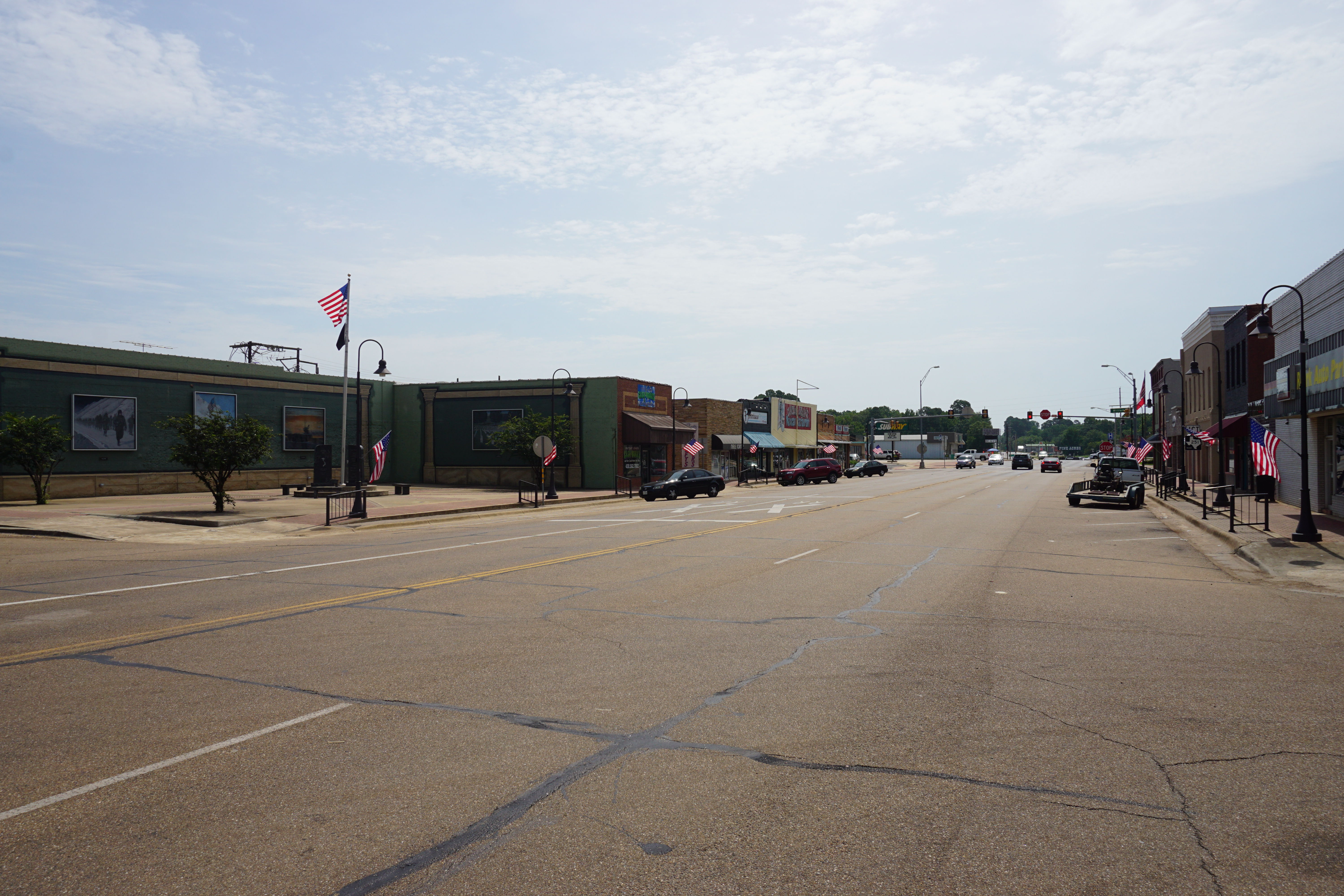 East Main Street in Atlanta, Texas (United States).